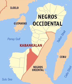 Map of Negros Occidental showing the location of Kabankalan